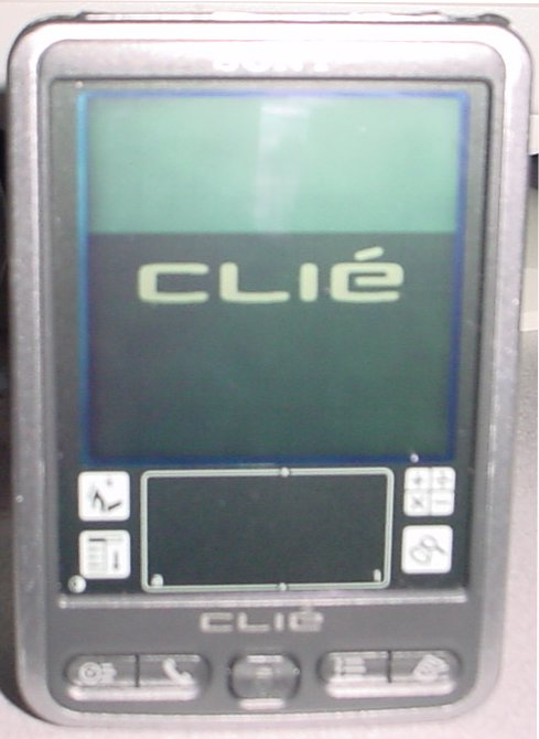 A Clie PEG-SL10 showing the Clie logo on the screen. The camera used makes the top part of the screen appear white, but all the screen (except the logo) was black.